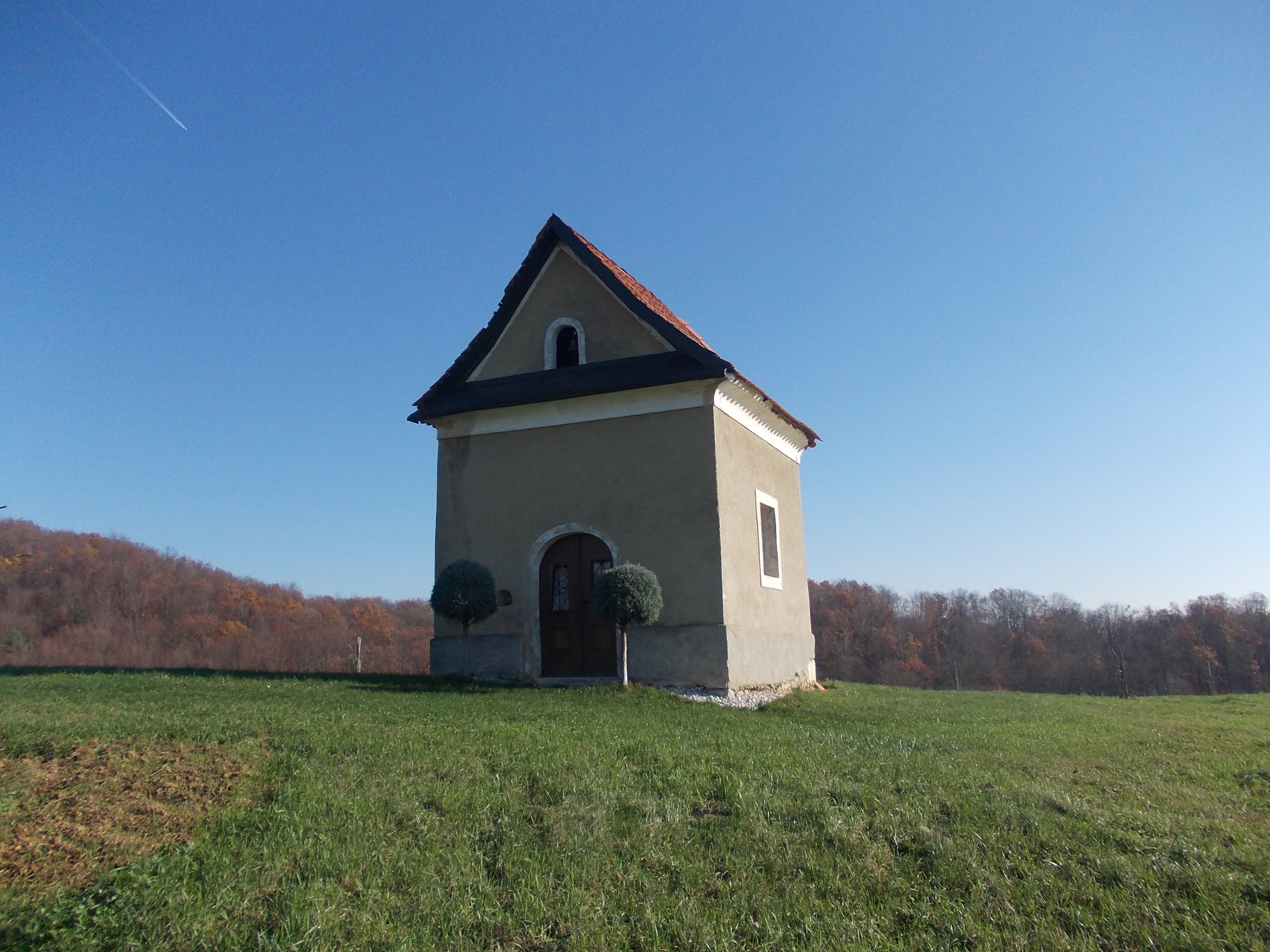 Sts. John and Paul Chapel (Sremič)